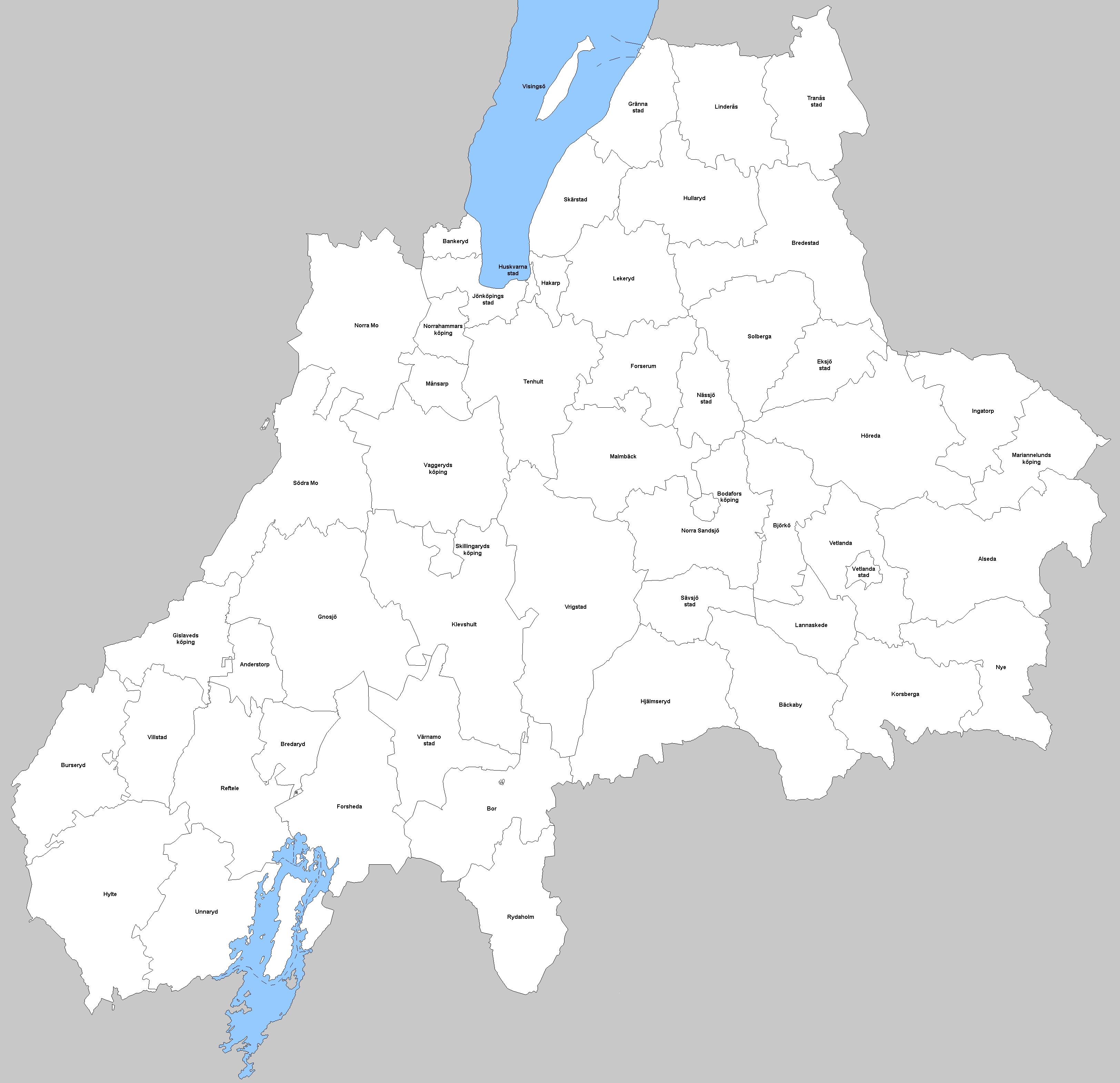 Old municipalities in Jönköpings län, 1952.